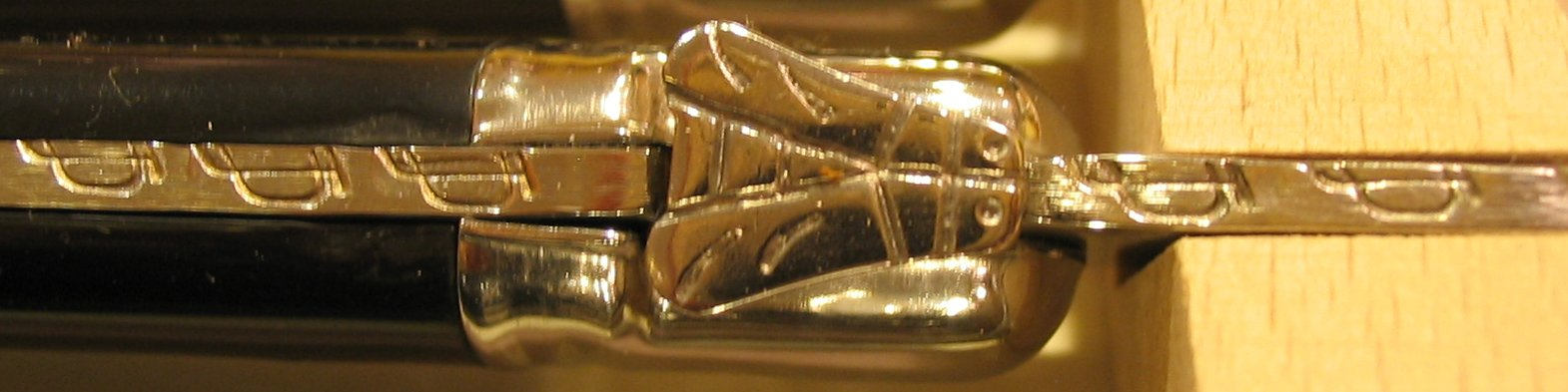 close-up of the distinctive Laguiole bee, cropped from other version